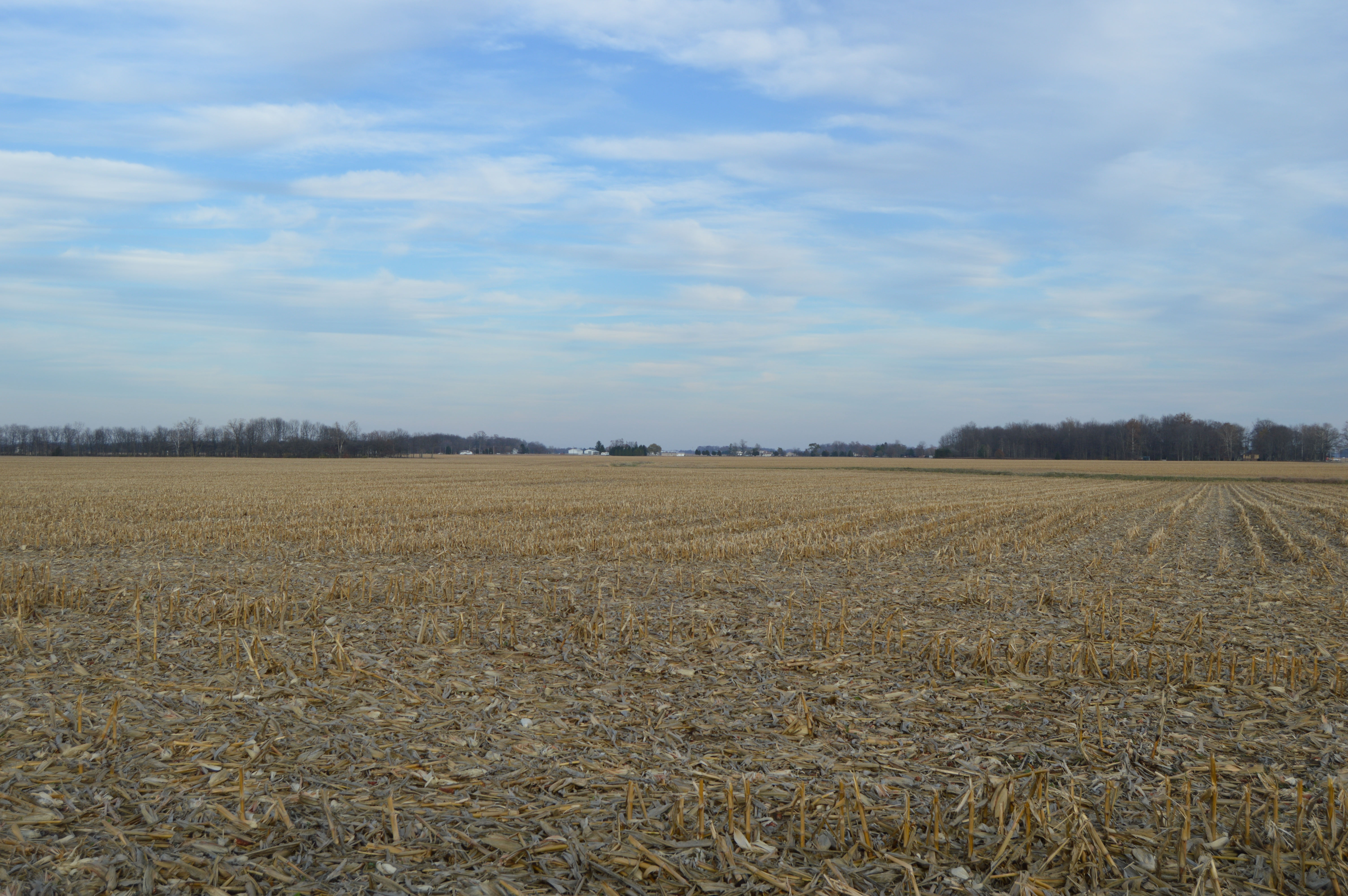 Looking eastward from Karr Road just north of the Grubbs-Rex Road intersection in western Monroe Township, Darke County, Ohio, United States.